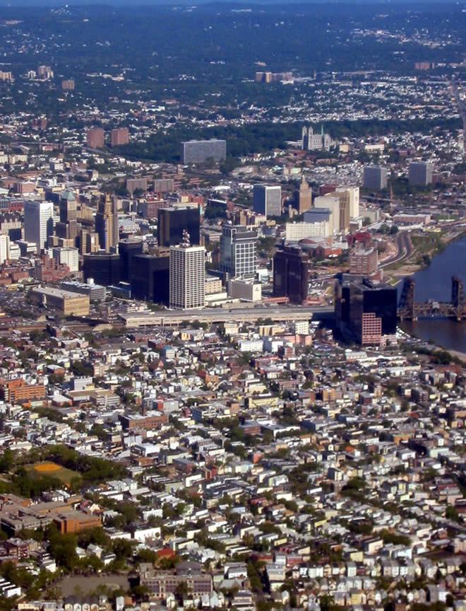 Aerial view of Newark looking northwest